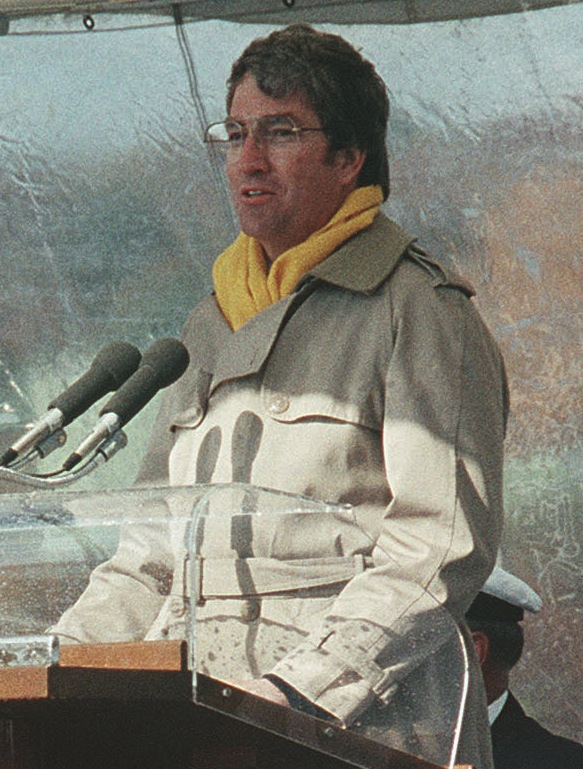 "Harry Felker, mayor of Topeka, Kansas, speaks during the commissioning ceremony of the nuclear-powered attack submarine USS TOPEKA (SSN 754)"